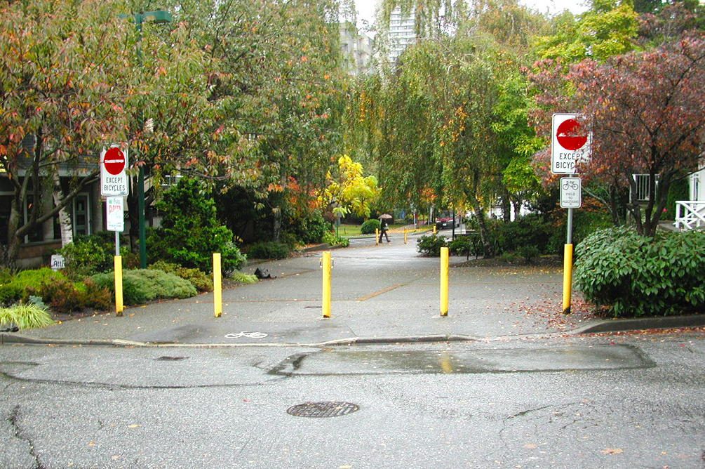 A modification to the grid network prevents through car traffic but permits direct pedestrian and bicycle access